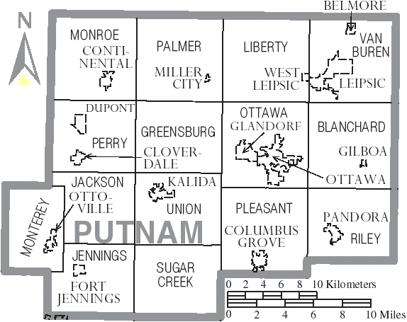 Map of Putnam County, Ohio, United States with township and municipal boundaries